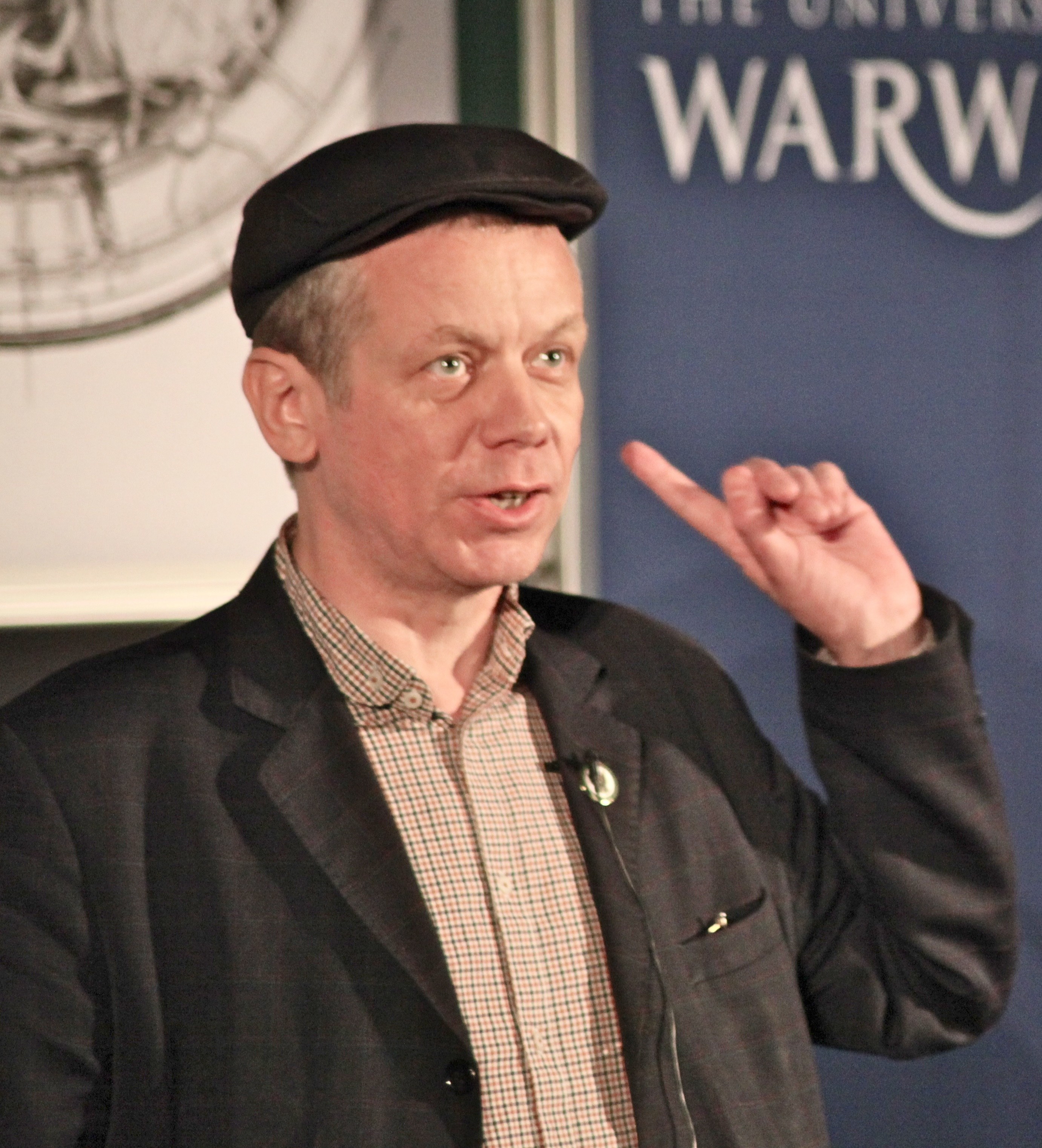 Richard Barbrook at VirtualFutures